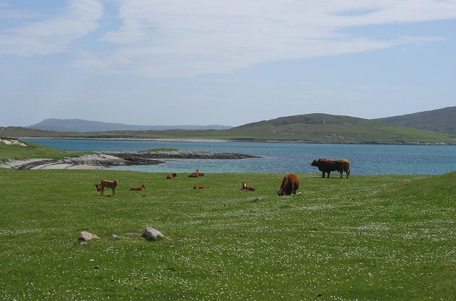 Machair in the South of Berneray with North Uist in the background, Outer Hebrides, Scotland